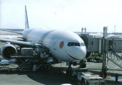 A photograph of a Japan Air System Boeing 777. The livery seen here was designed by 13 year-old Masatomo Watanabe.